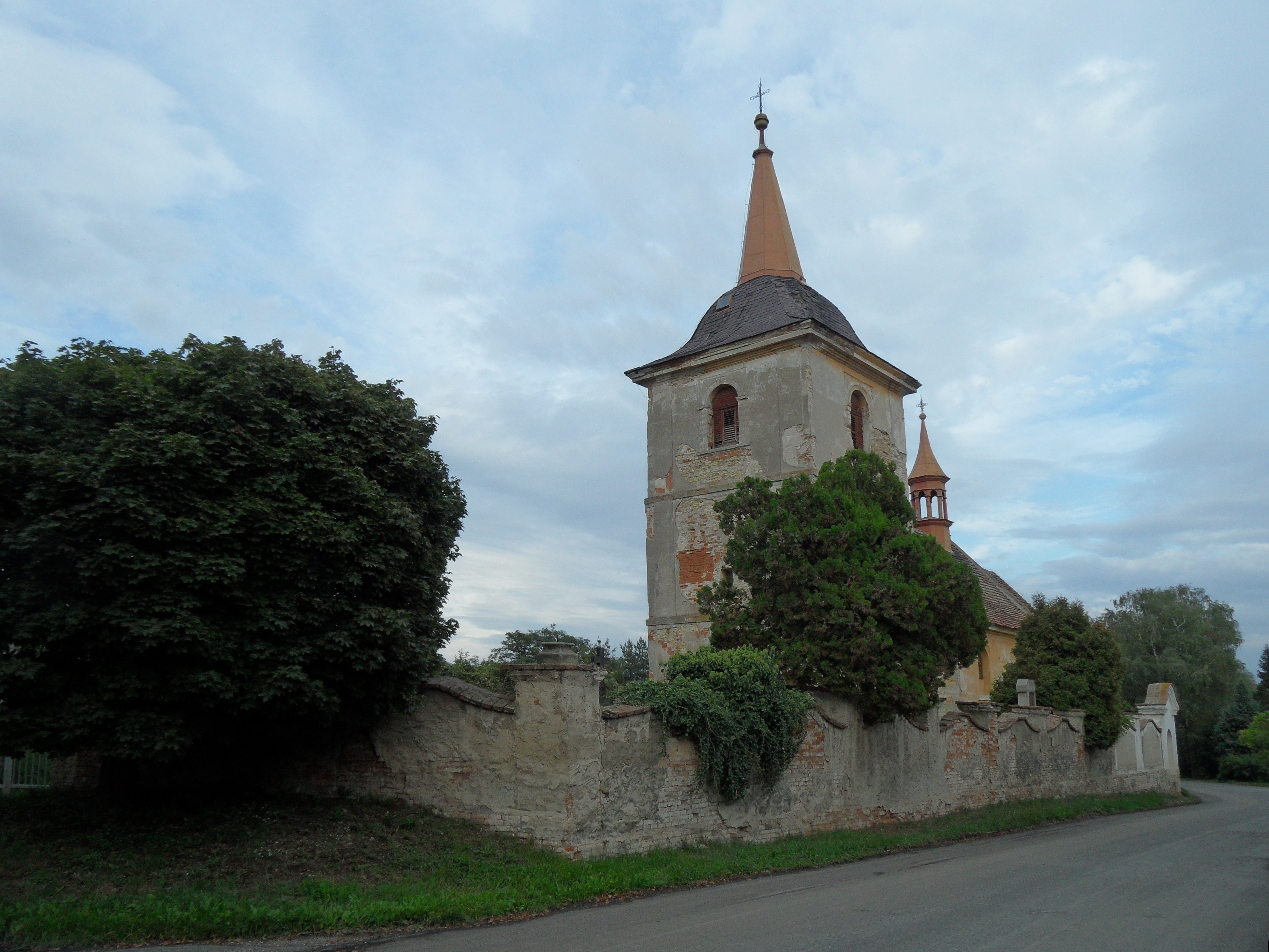 Bošín (Křinec) I. Church of the Assumption of the Virgin Mary: Overview, Nymburk District, the Czech Republic.